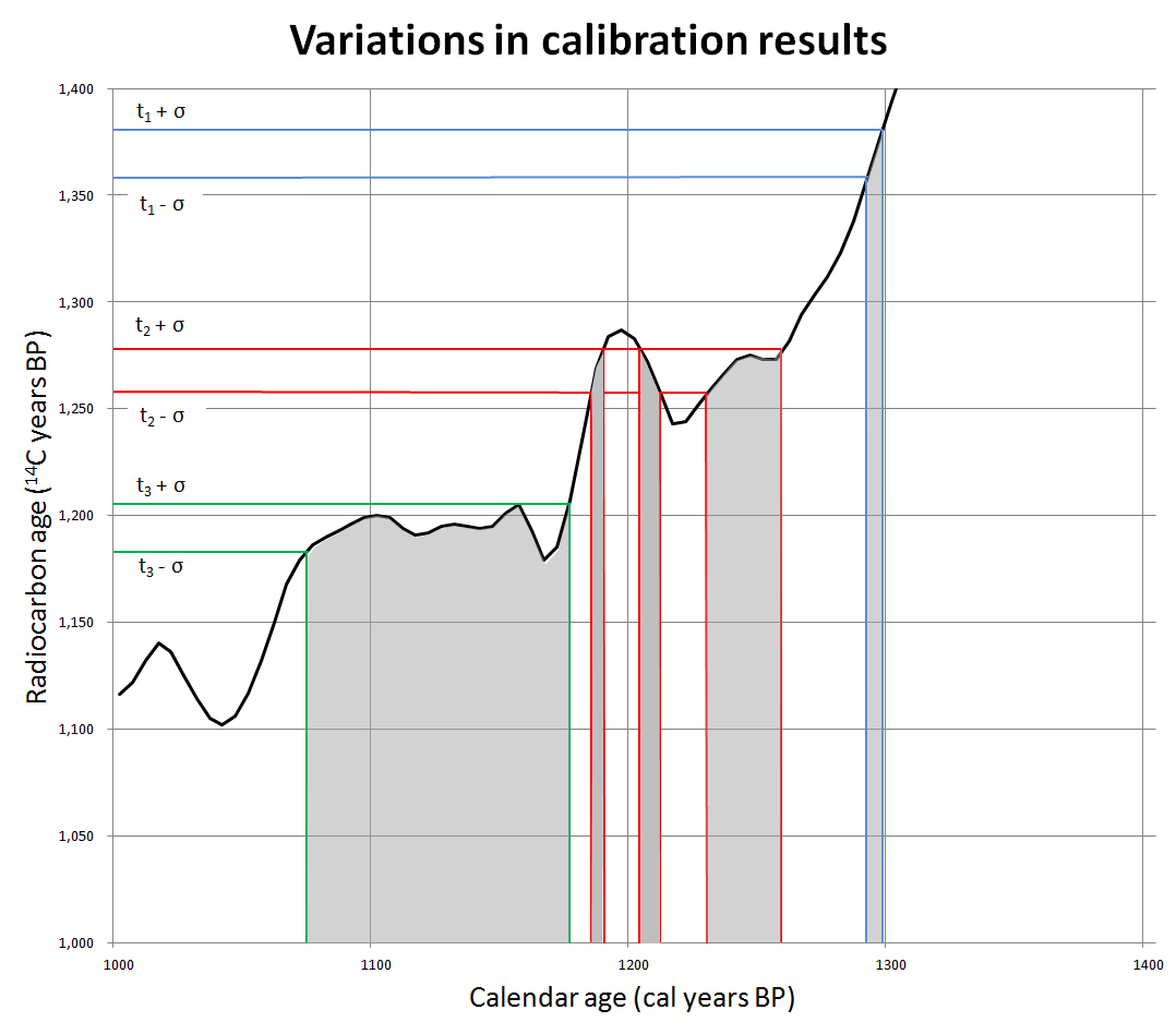 Partial graph of INTCAL13 data, showing variation in calibration curve results. The source for the underlying data is here, via the "intcal13.14c" link. The paper for which this is supplementary data is "IntCal13 and Marine13 Radiocarbon Age Calibration Curves 0–50,000 Years cal BP", by Paula J Reimer, Edouard Bard, Alex Bayliss, J Warren Beck, Paul G Blackwell, Christopher Bronk Ramsey, Caitlin E Buck, Hai Cheng, R Lawrence Edwards, Michael Friedrich, Pieter M Grootes, Thomas P Guilderson, Haflidi Haflidason, Irka Hajdas, Christine Hatté, Timothy J Heaton, Dirk L Hoffmann, Alan G Hogg, Konrad A Hughen, K Felix Kaiser, Bernd Kromer, Sturt W Manning, Mu Niu, Ron W Reimer, David A Richards, E Marian Scott, John R Southon, Richard A Staff, Christian S M Turney, Johannes van der Plicht, in Radiocarbon, Vol. 55, No. 4.". This paper should be cited when using this data or this graph. The graph uses the first two columns of data from the given source -- calendar years before present, and radiocarbon years before present. There are three examples given, showing a small calendar range outcome (t1), a result composed of two separate calendar date ranges (t2), and a result with a wide calendar date range because of a plateau in the calibration curve.